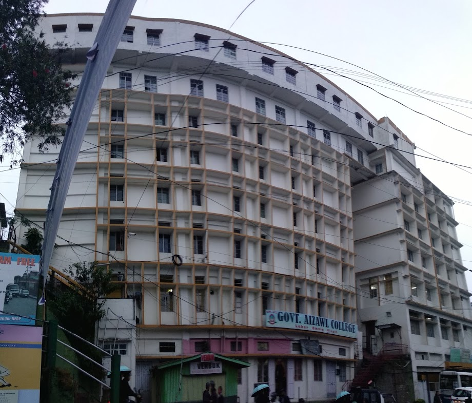 Aizawl College building